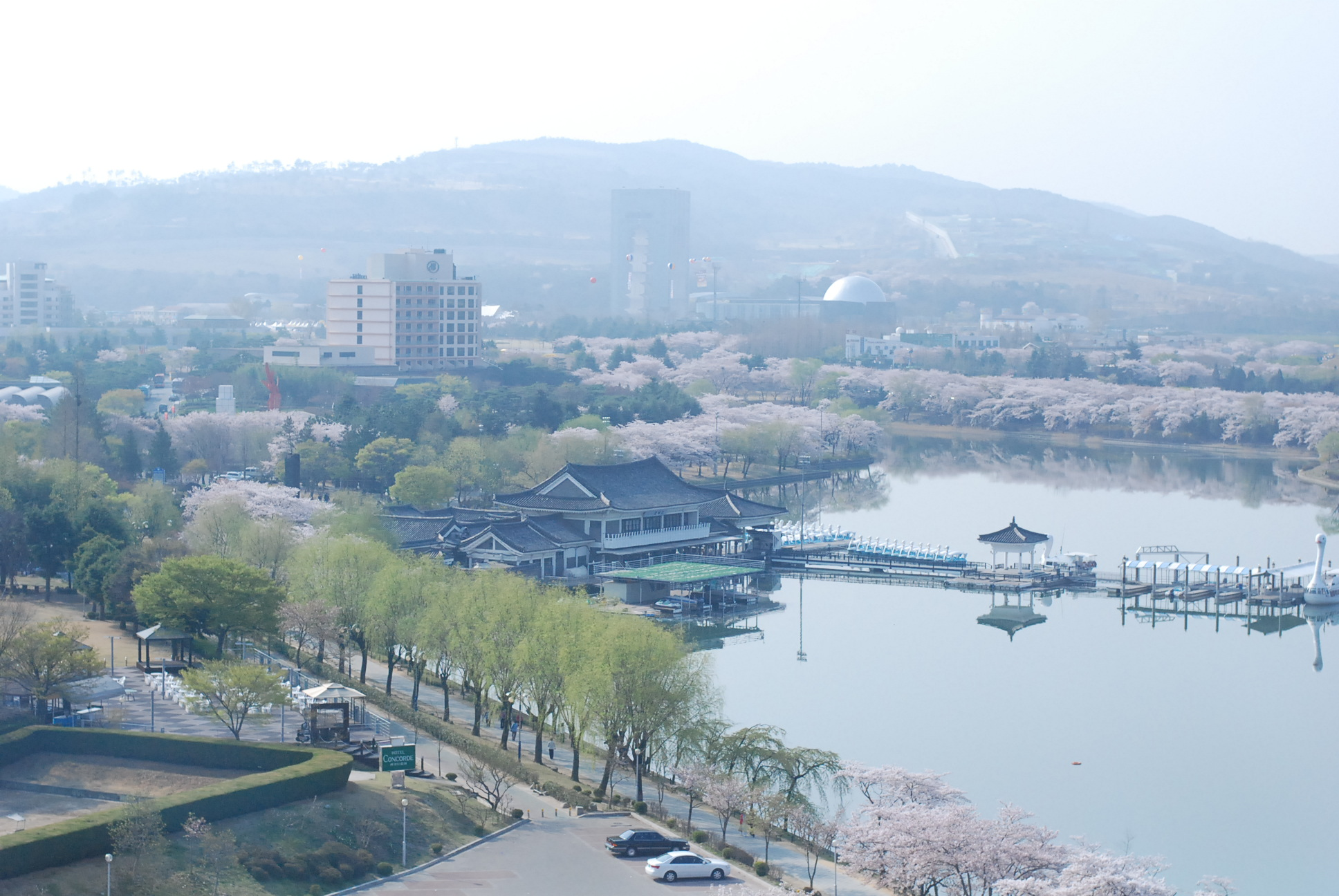 View of Gyeongju-Korea